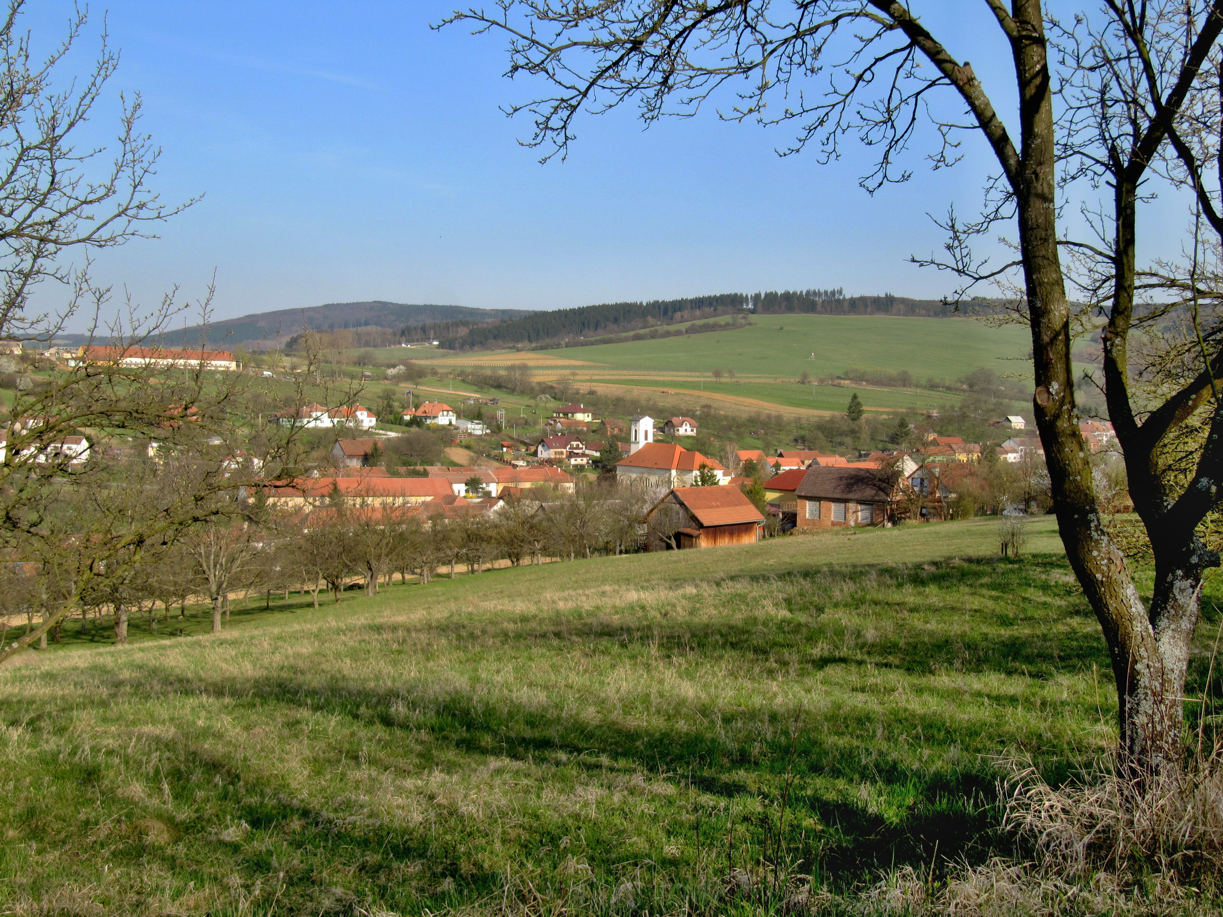 Komňa, Uherské Hradiště District, Czech Republic. Church of Saint James the Greater.